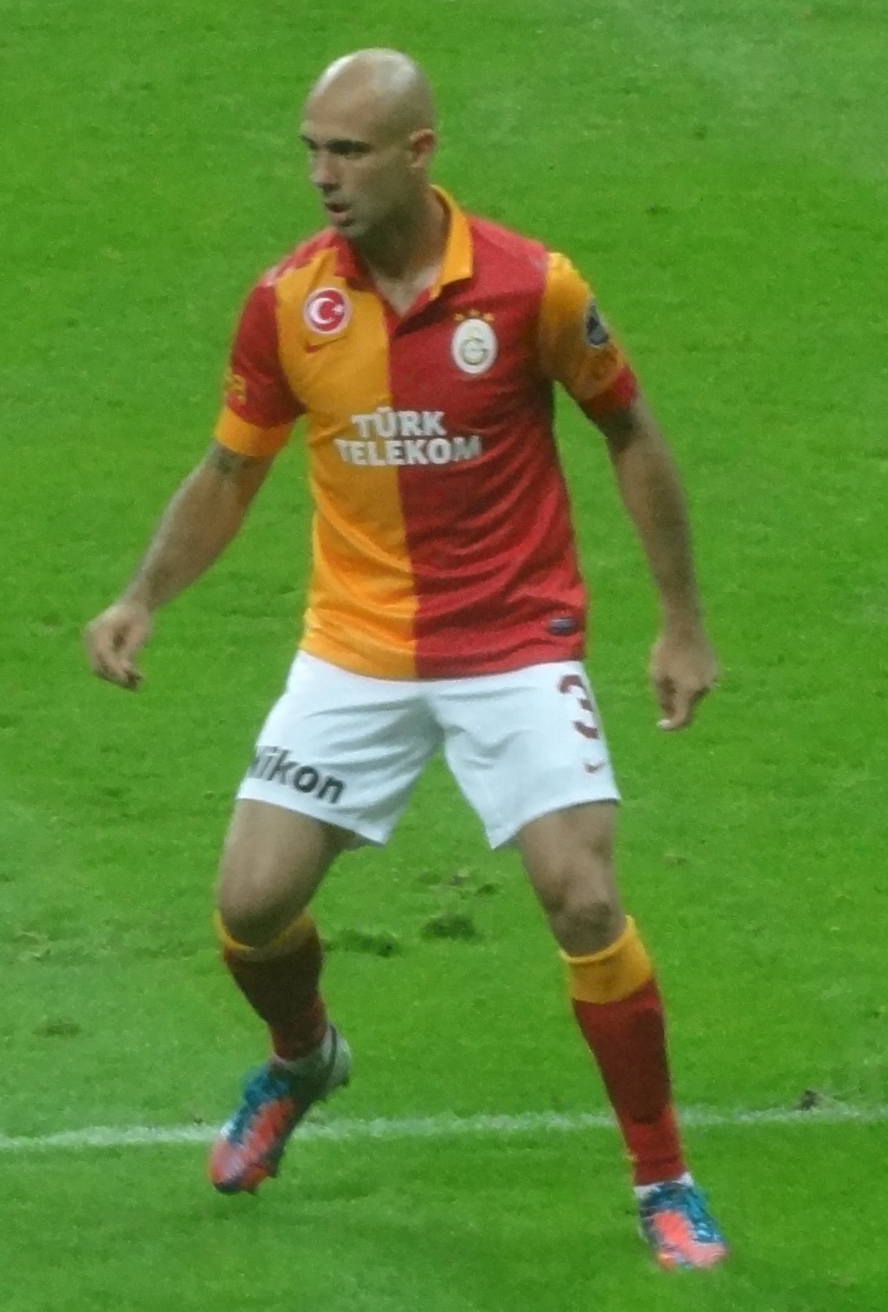 Akhisar